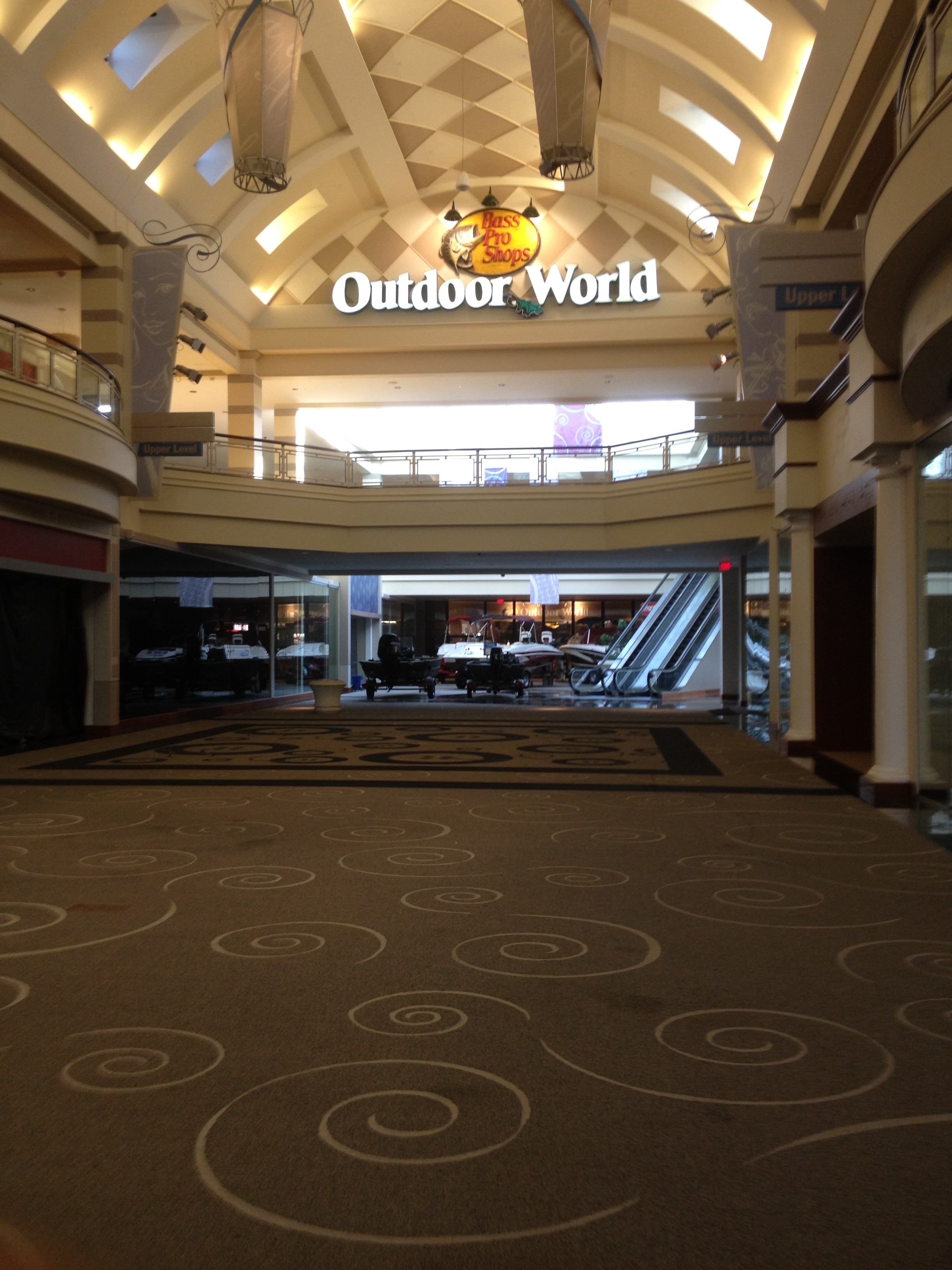 Bass Pro Shops - Cincinnati Mills Mall